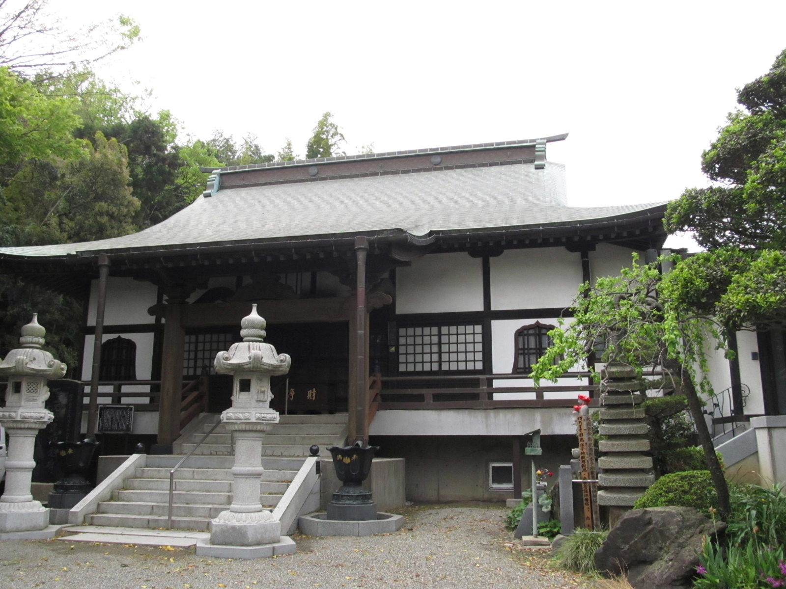 Kaō-in in Fujisawa City, Kanagawa Prefecture, Japan